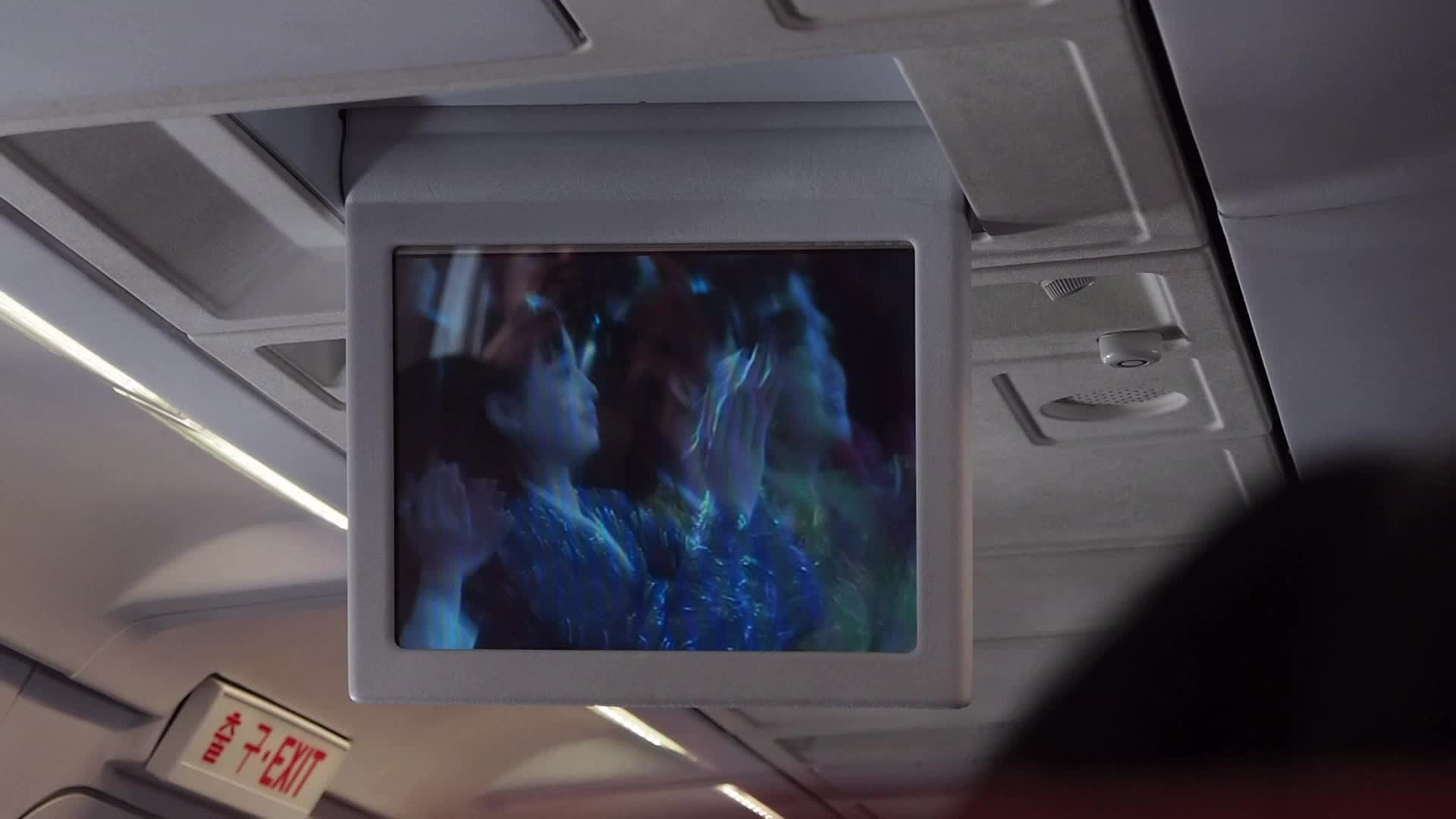 The Moranbong Band playing the "Rocket Launch Song"